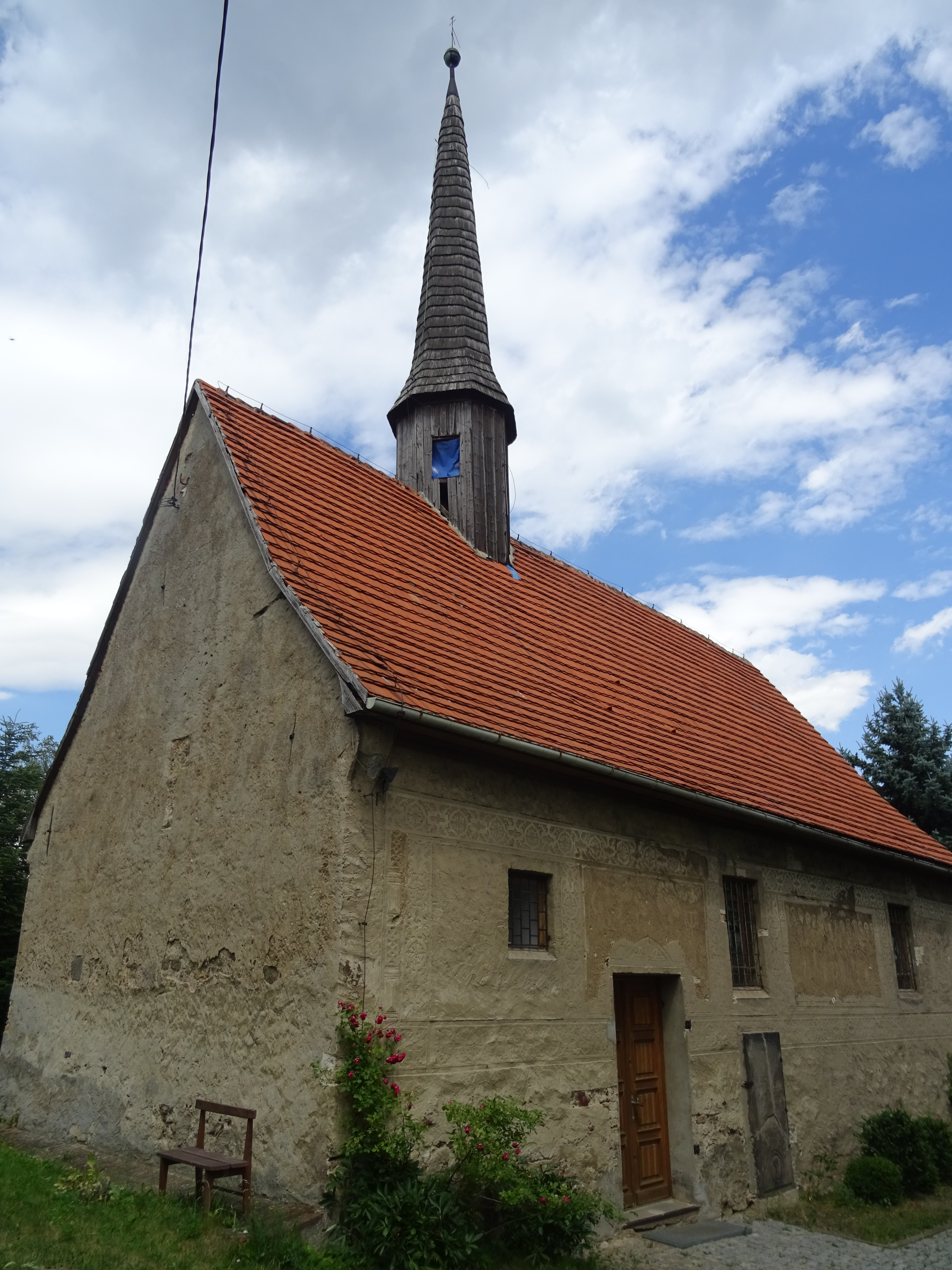 This photograph was created as a part of Wikiexpedition Lower Silesia, a project supported by Wikimedia Poland grant.